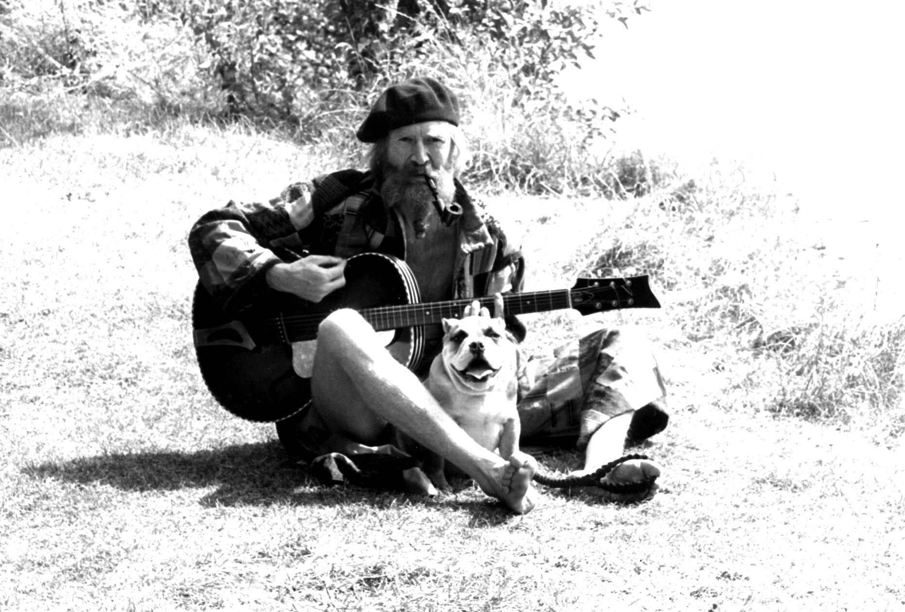 Picture taken by me, Ki Longfellow-Stanshall, in England summer of 1979 or 1980